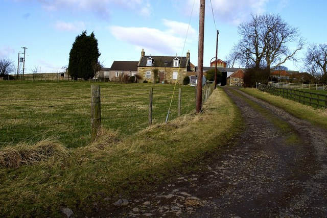 Bonnyton farm Looking north west along the farm road leading to Bonnyton farm